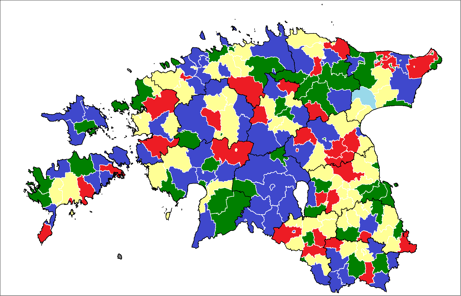 Estonian municipal elections 2013 by municipality. Party with the most votes colored, not including citizens' elections coalitions. Yellow = Estonian Reform Party Green = Estonian Center Party Blue = Union of Pro Patria and Res Publica Red = Social Democratic Party Light blue = Conservative People's Party of Estonia Gray (Ruhnu) = No parties participated File:Estonian municipal elections 2013 alternative.png includes citizens' elections coalitions.